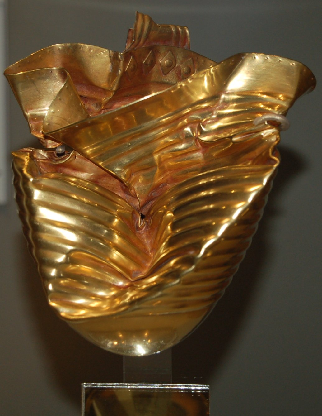 The Ringlemere Cup, gold, Bronze Age, c. 1700–1500 B.C. It was found in the Ringlemere barrow, Kent, in England by Cliff Bradshaw, a metal detectorist. It was acquired by the British Museum under the Treasure Act 1996 and purchased with assistance from the Heritage Lottery Fund, the National Art Collections Fund and the British Museum Friends. The cup's crushed appearance is the result of modern ploughing, which appears to have happened just before its discovery. The cup was not found associated with any other objects, leading experts to believe it has moved over time in the ground. The area around the site where it was found was discovered to be a large prehistoric landscape and an Anglo-Saxon cemetery. For more information, and